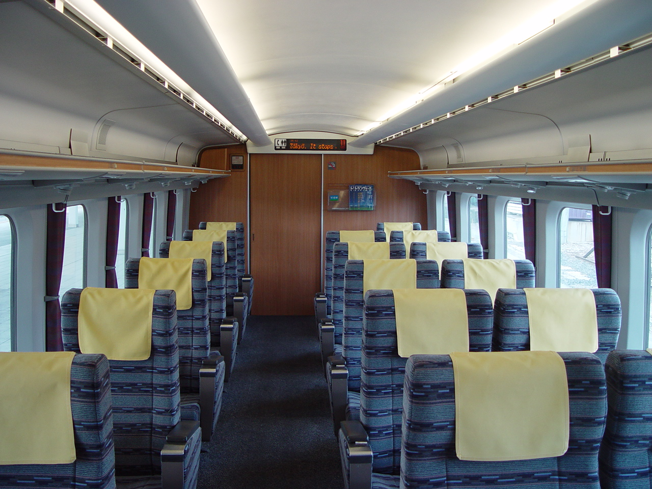 Interior of a JR East 400 series shinkansen Green car